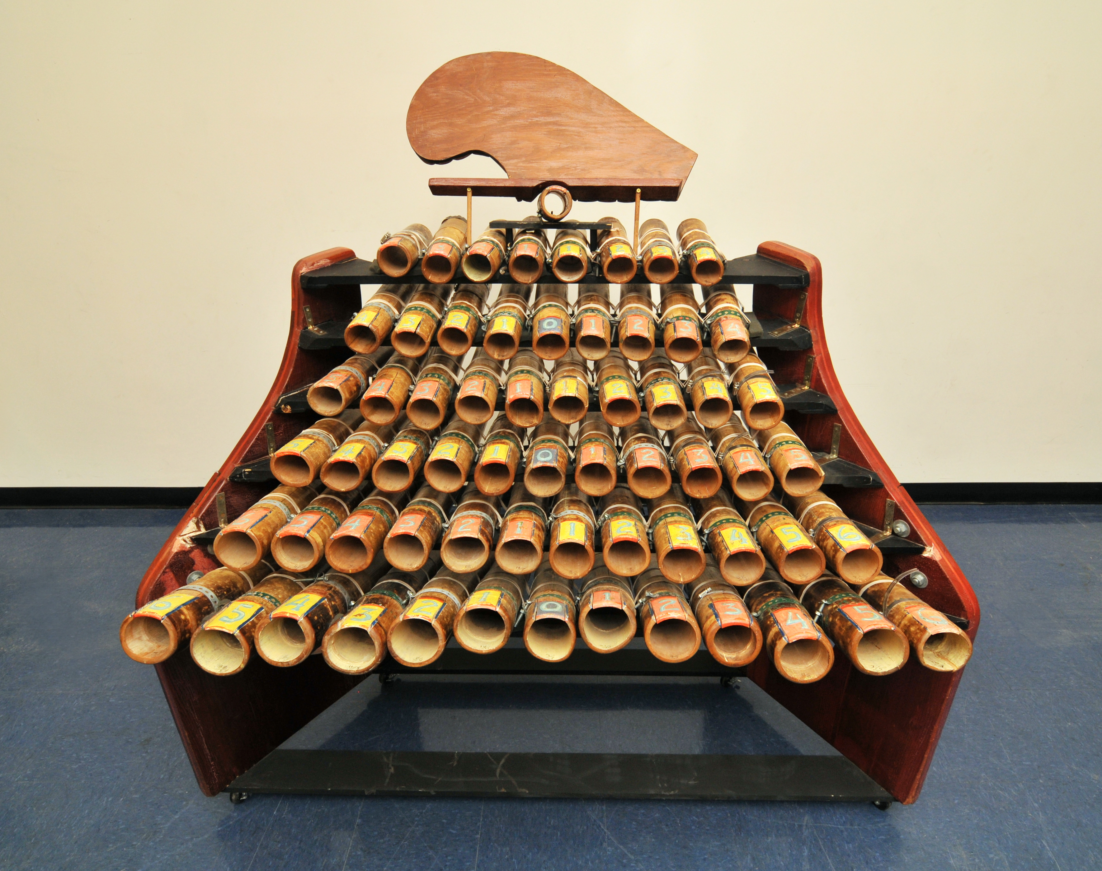 Harry Partch's Boo II, a bamboo marimba using his system of just intonation. Photographed at the Harry Partch Institute at Montclair State University.